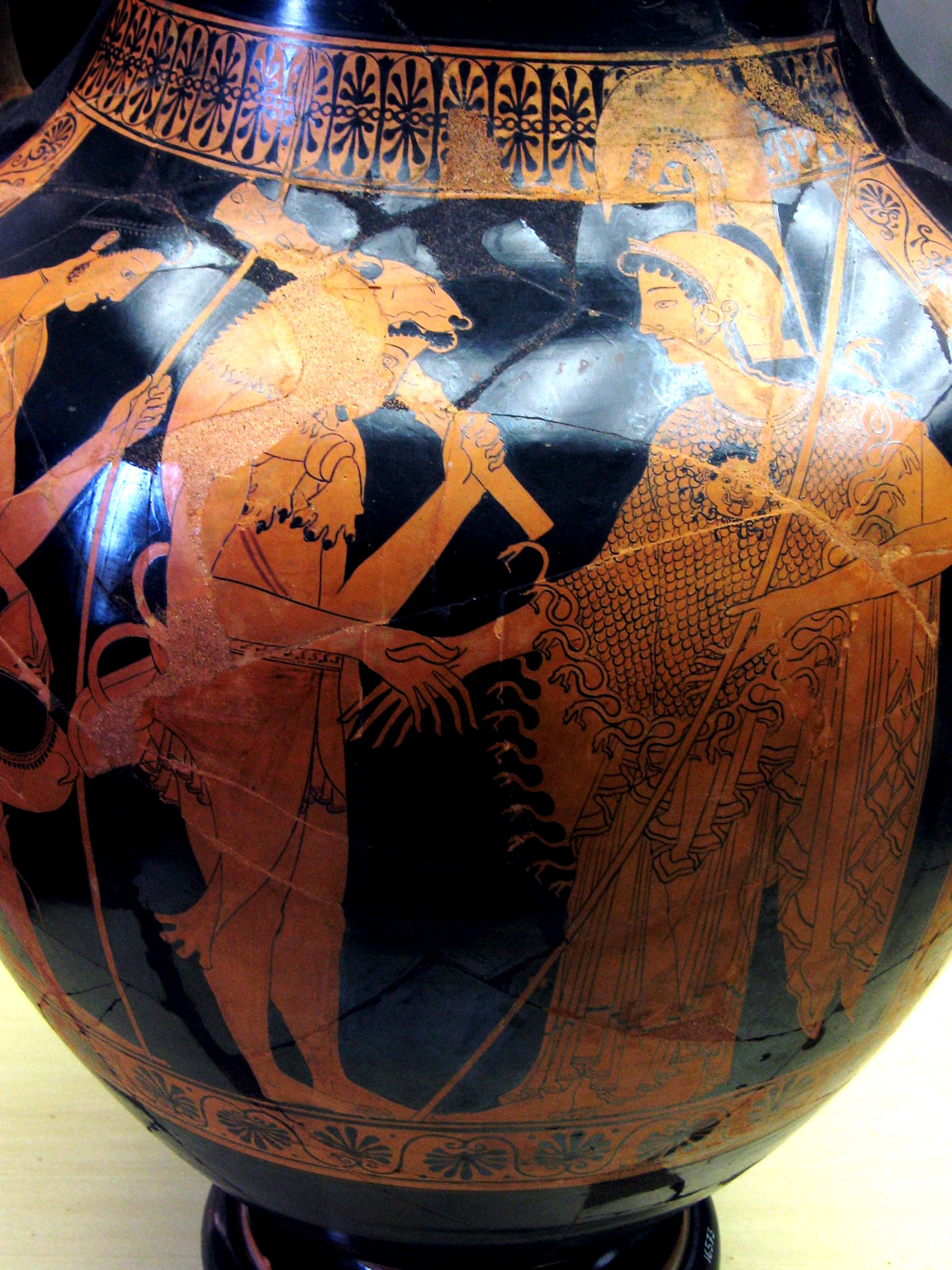 Athena shakes hands with Herakles on a Greek vase found in Etruscan Italy. Behind Heracles, either Iolaus or Hylas.